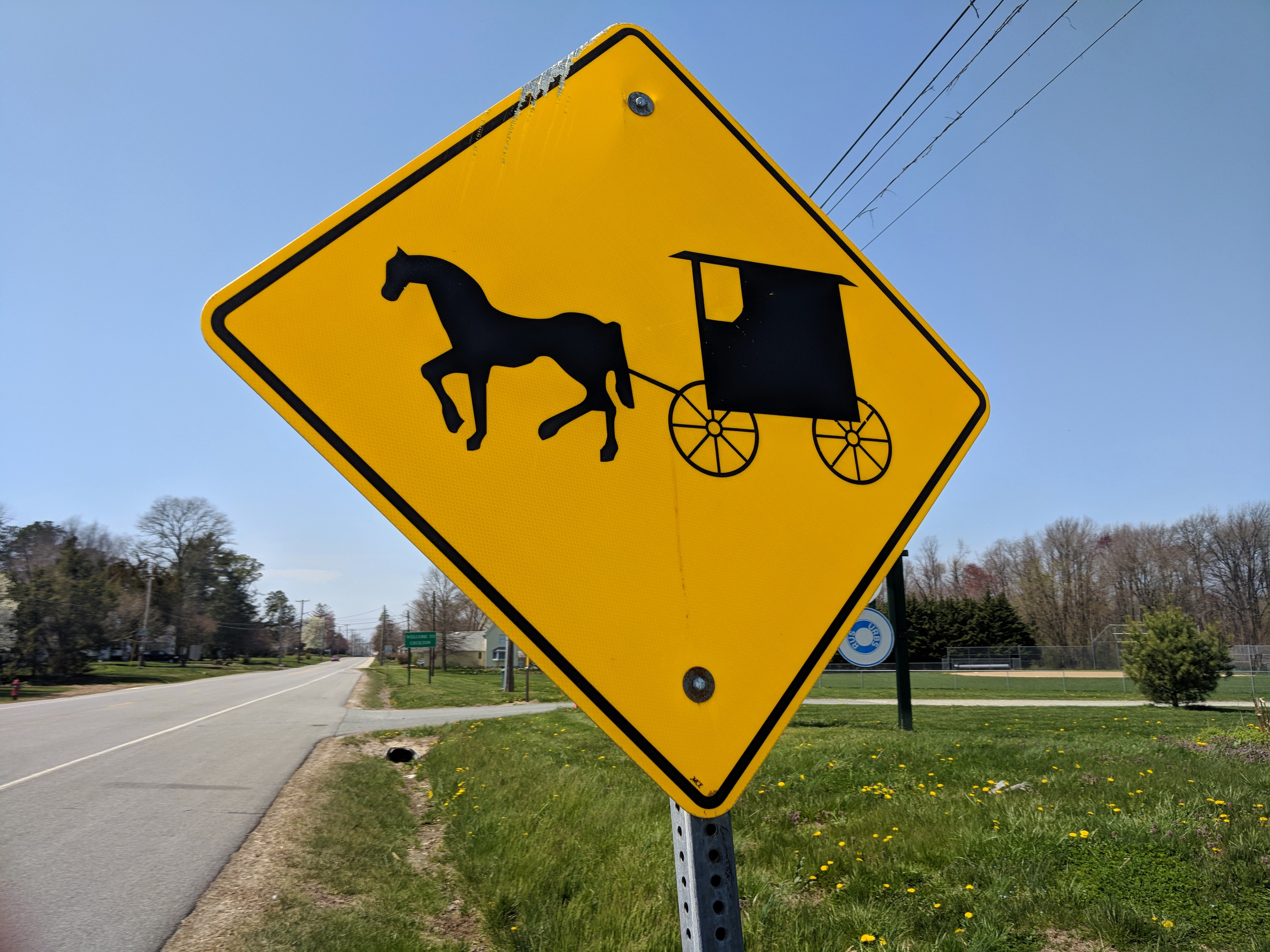 Amish horse and buggy warning signs in Cecilton, Cecil County, Maryland.